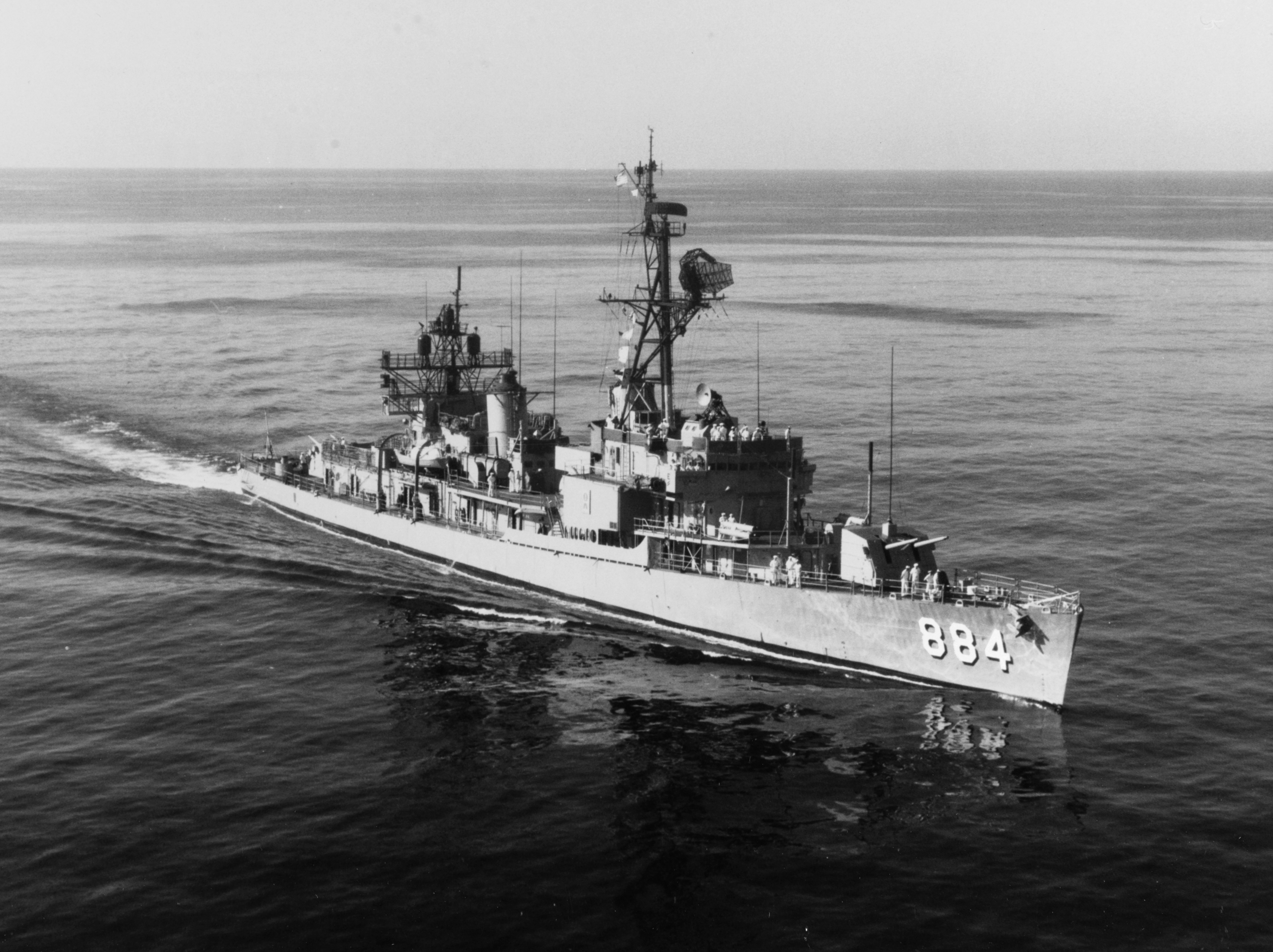 The U.S. Navy destroyer USS Floyd B. Parks (DD-884) underway in the Pacific Ocean on 11 February 1971.